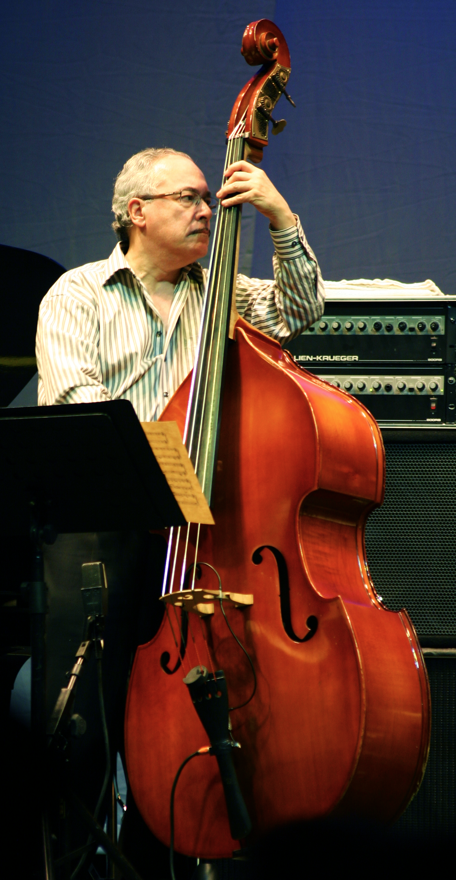 Eddie Gomez in Santiago, Chile, with the Chick Corea Trio.